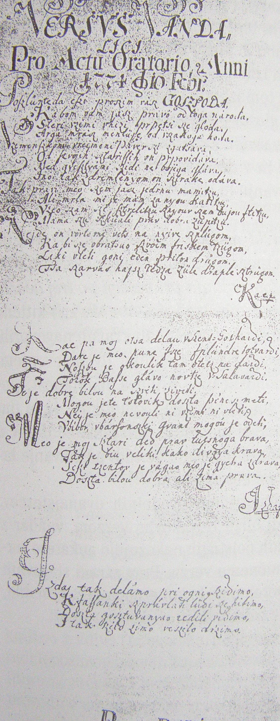 Versus Vandalici (Vandalian/Slovene verse), verse of Dávid Novák